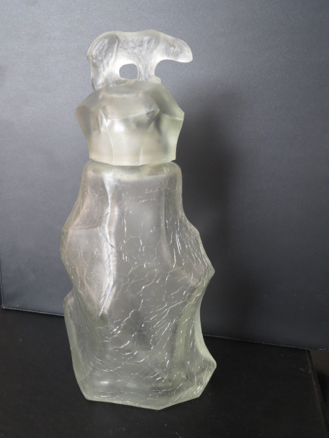 Original Malevich-designed perfume bottle with craquelure for "Severny eau de cologne", ca. 1911-1925. Moscow, Russia